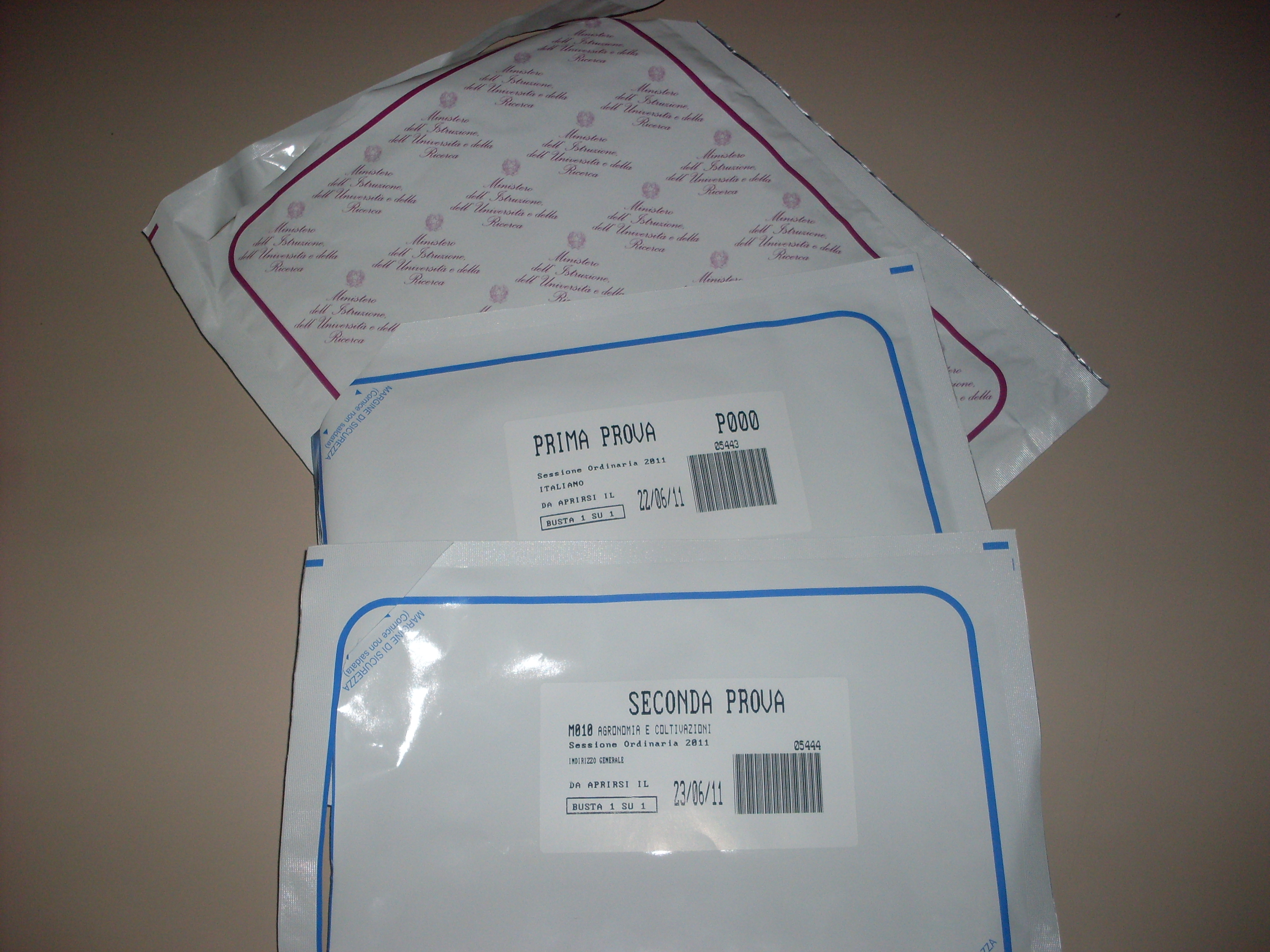 Envelopes of first and second written tests of the Italian Esame di stato (maturity exam)